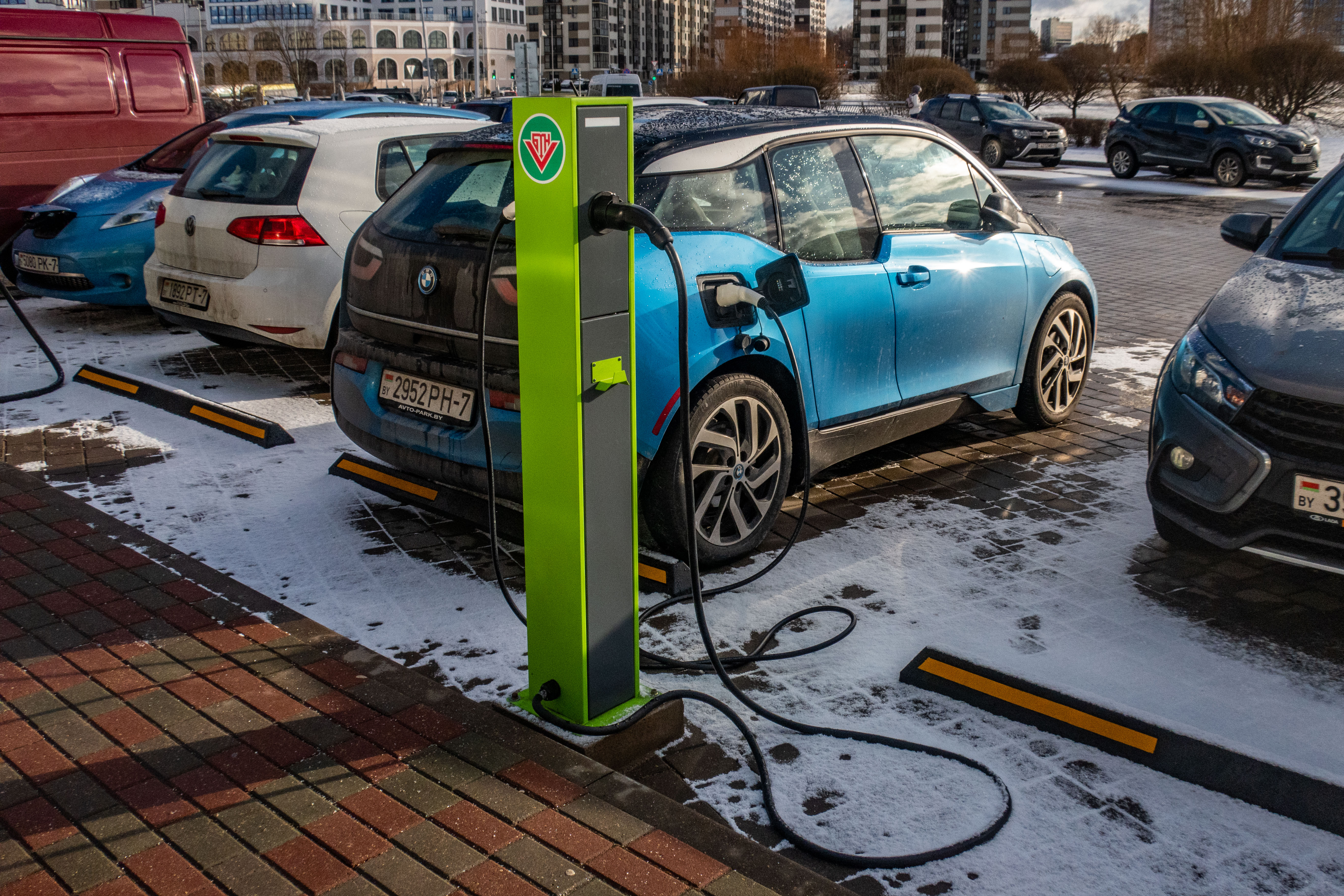 Electric cars charging in Minsk, Belarus